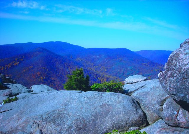 View from the summit of Old Rag mountain.